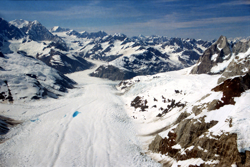 Glacier Bay National Park and Preserve, Alaska, USA, Brady Icefield